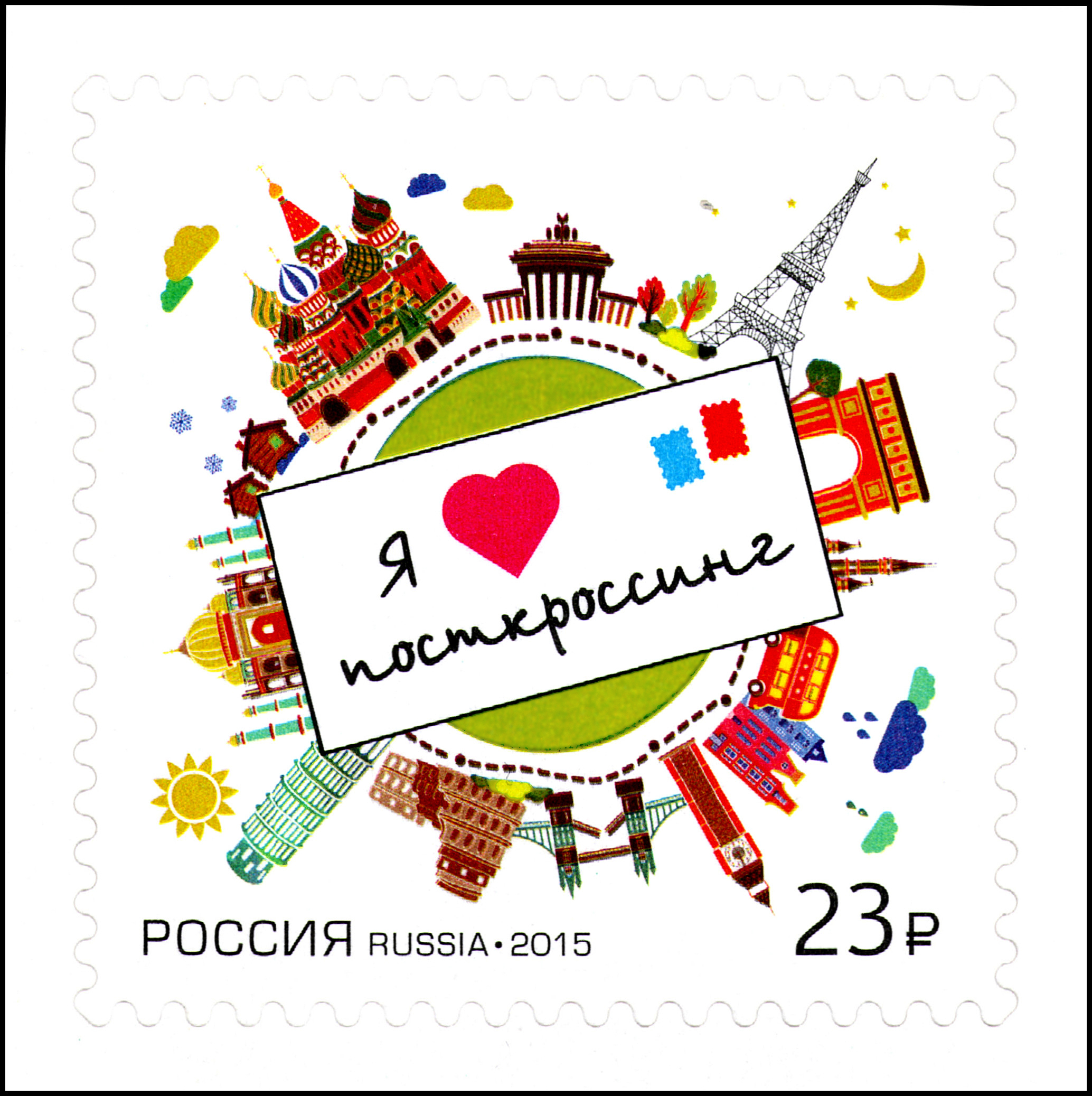 Postcrossing. The inscription „Я ❤ посткроссинг“ („I ❤ Postcrossing“); schematic pictures of world sights. The stamp of Russia, 23.00 Rubles, 27 January 2015, PTC Marka Catalogue No 1911. Self-adhesive paper. Offset printing. Perforation (stamping): 10×10. Size of the stamp: 37×37 mm. Print run: 297,000.